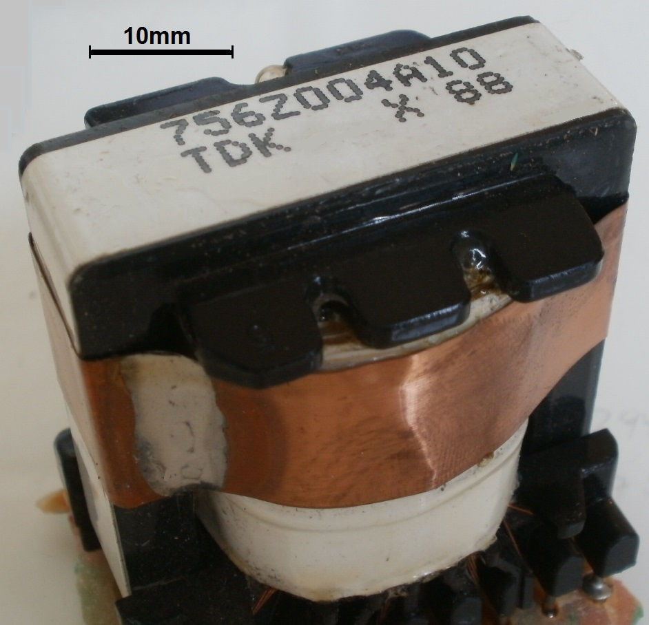 magnetic shield of an switchmode power supply transformer. The copper loop prevents usually occuring vertical field emissions.